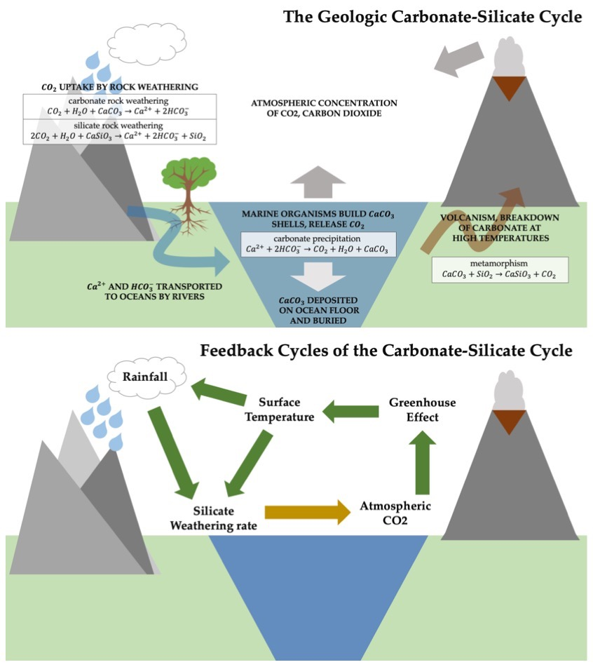 This schematic shows the relationship between the different physical and chemical processes that make up the carbonate-silicate cycle. In the upper panel, the specific processes are identified, and in the lower panel, the feedbacks associated are shown; green arrows indicate positive coupling, while yellow arrows indicate negative coupling.